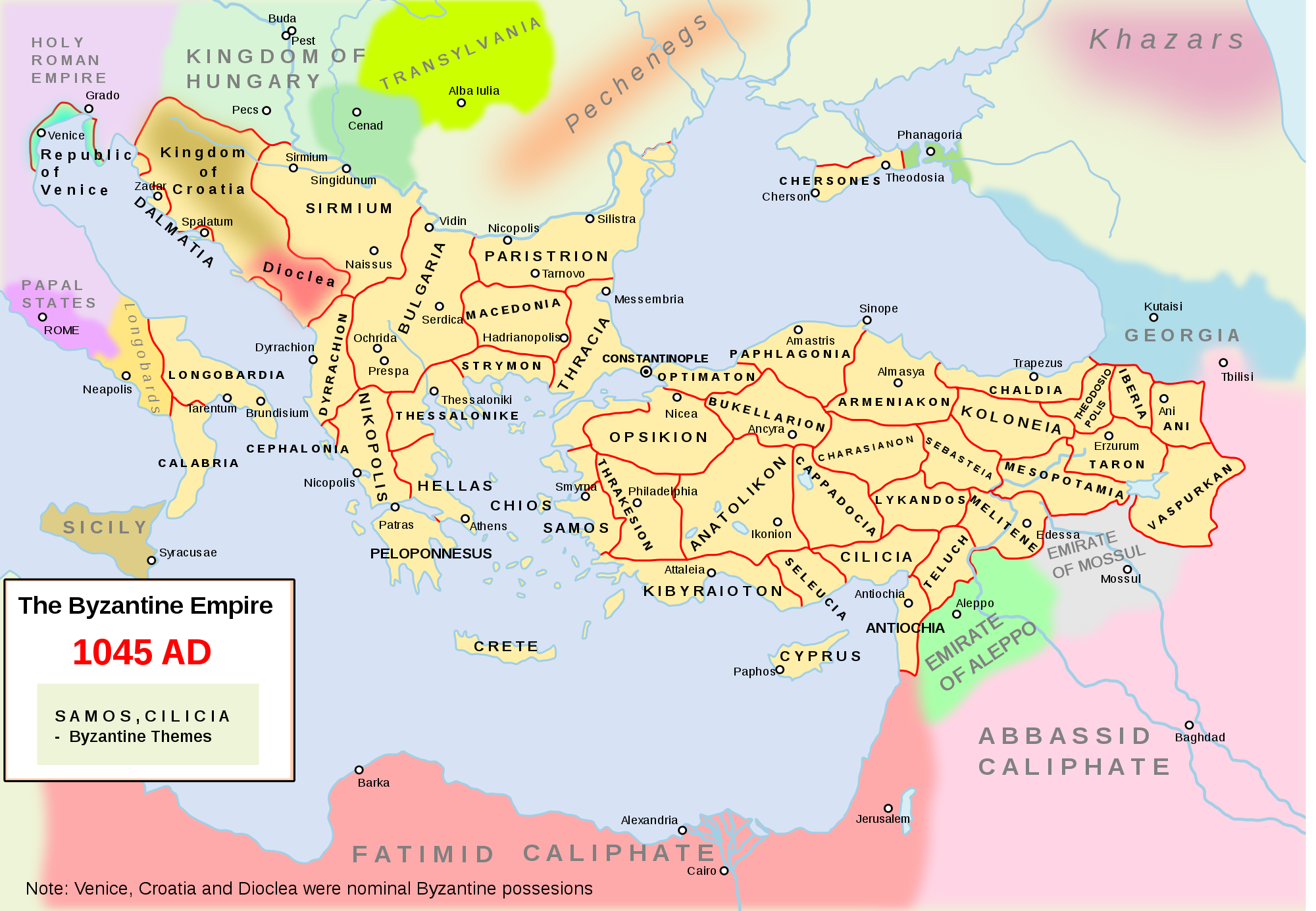 The Byzantine empire and its neighbours in 1045. Byzantine administrative divisions included.